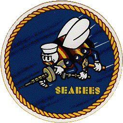 PNG version of official logo of the Seabees, adapted from A slight variant of this image exists at [1].